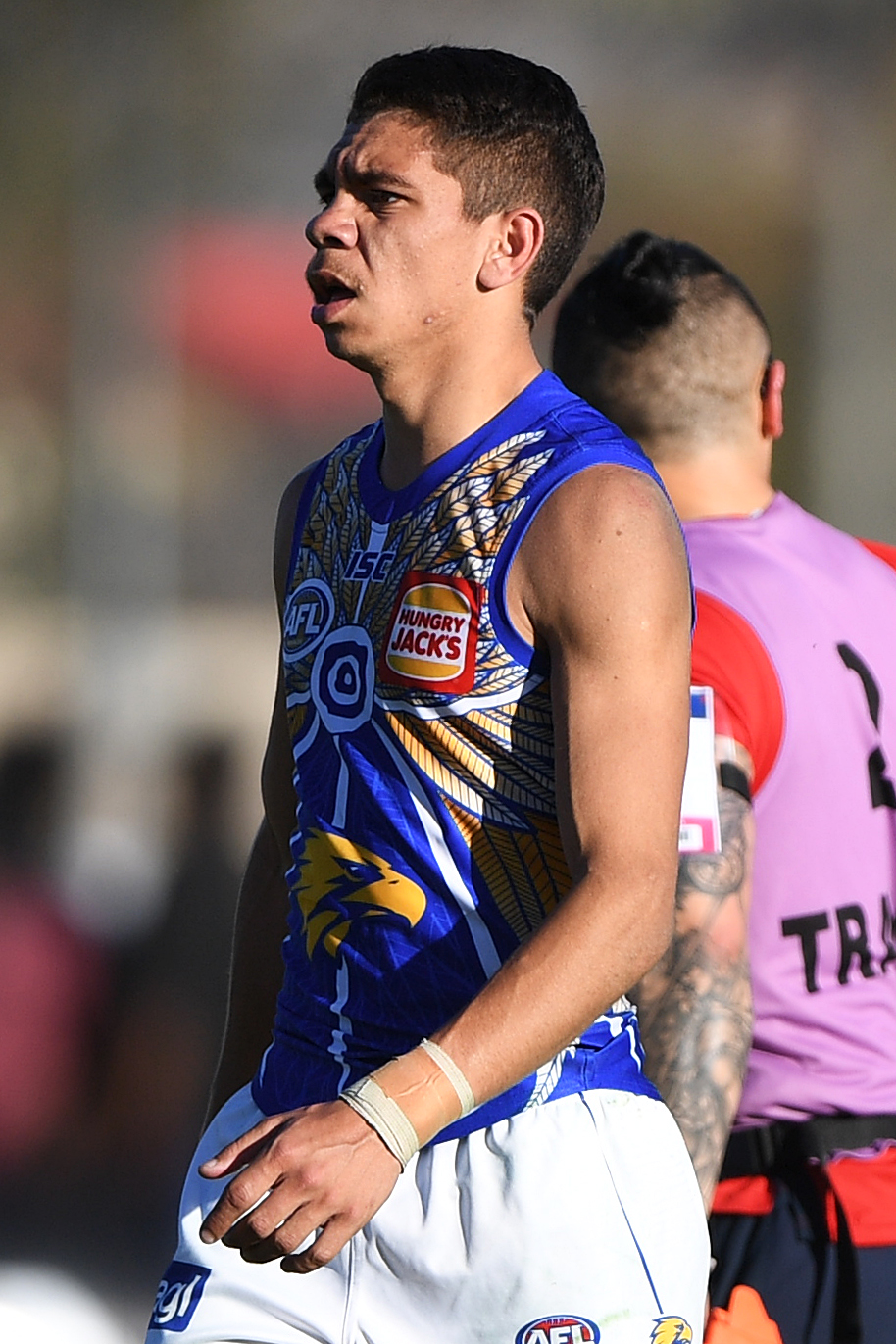 Jarrod Cameron of West Coast during the 2019 AFL round 18 match between Melbourne and West Coast at Traeger Park on Sunday, 21 July 2019 in Alice Springs, Northern Territory.